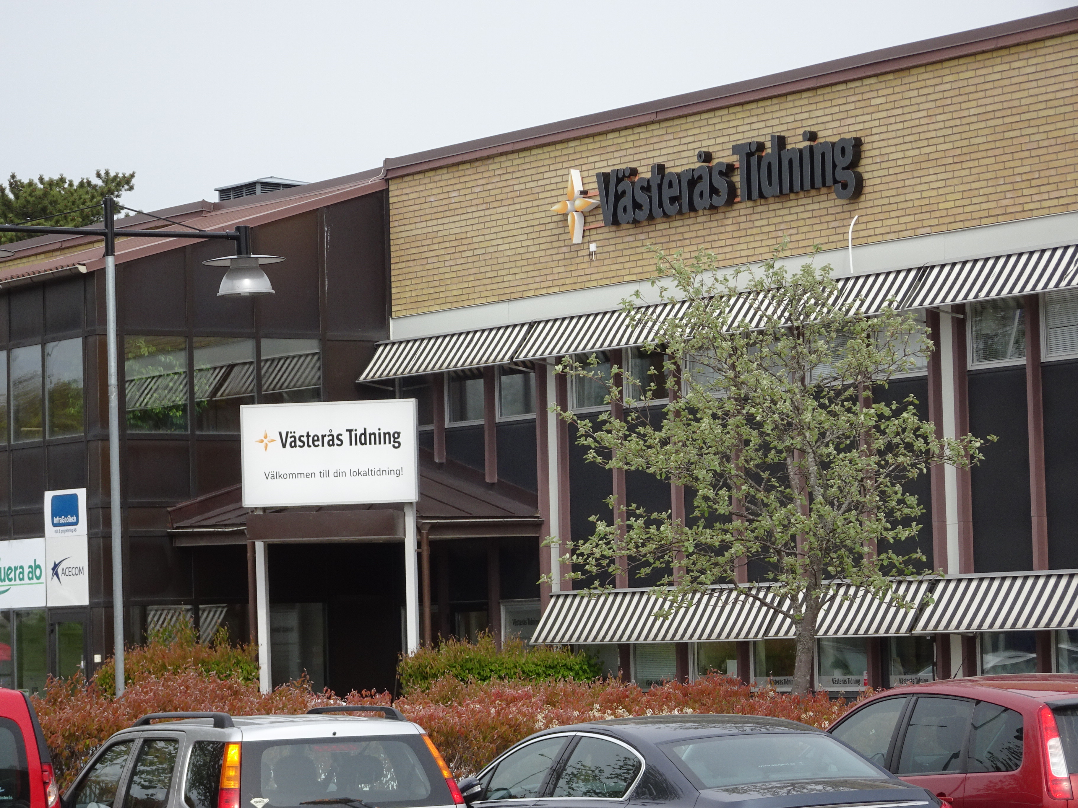 Västerås tidning är en gratistidning som delas ut i Västerås och delar av Västmanland.